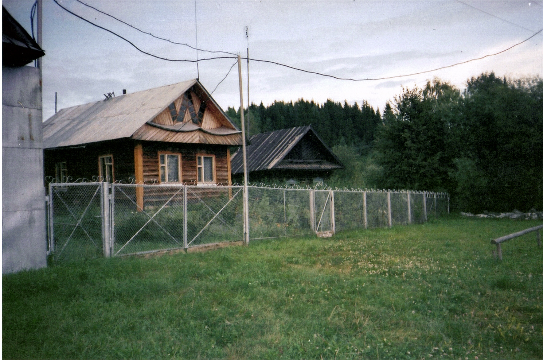 Kolyshevo. Homestead Lomaev